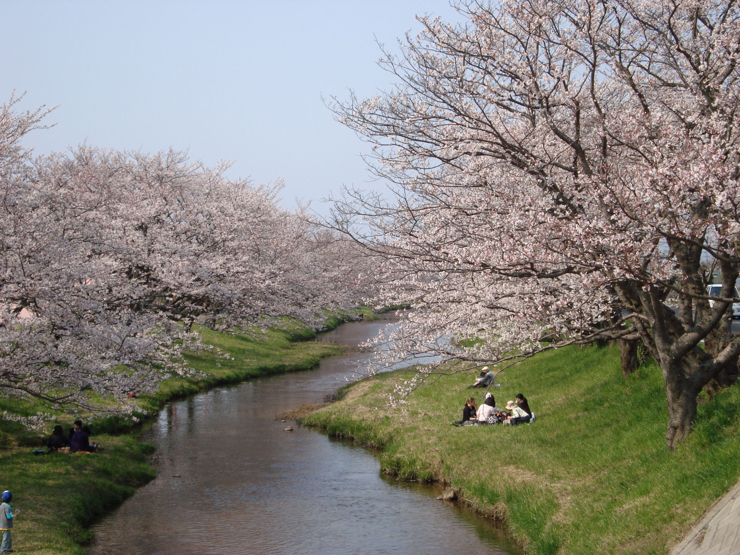 Tamatsukuri Onsen - Cherry Blossom by the river1